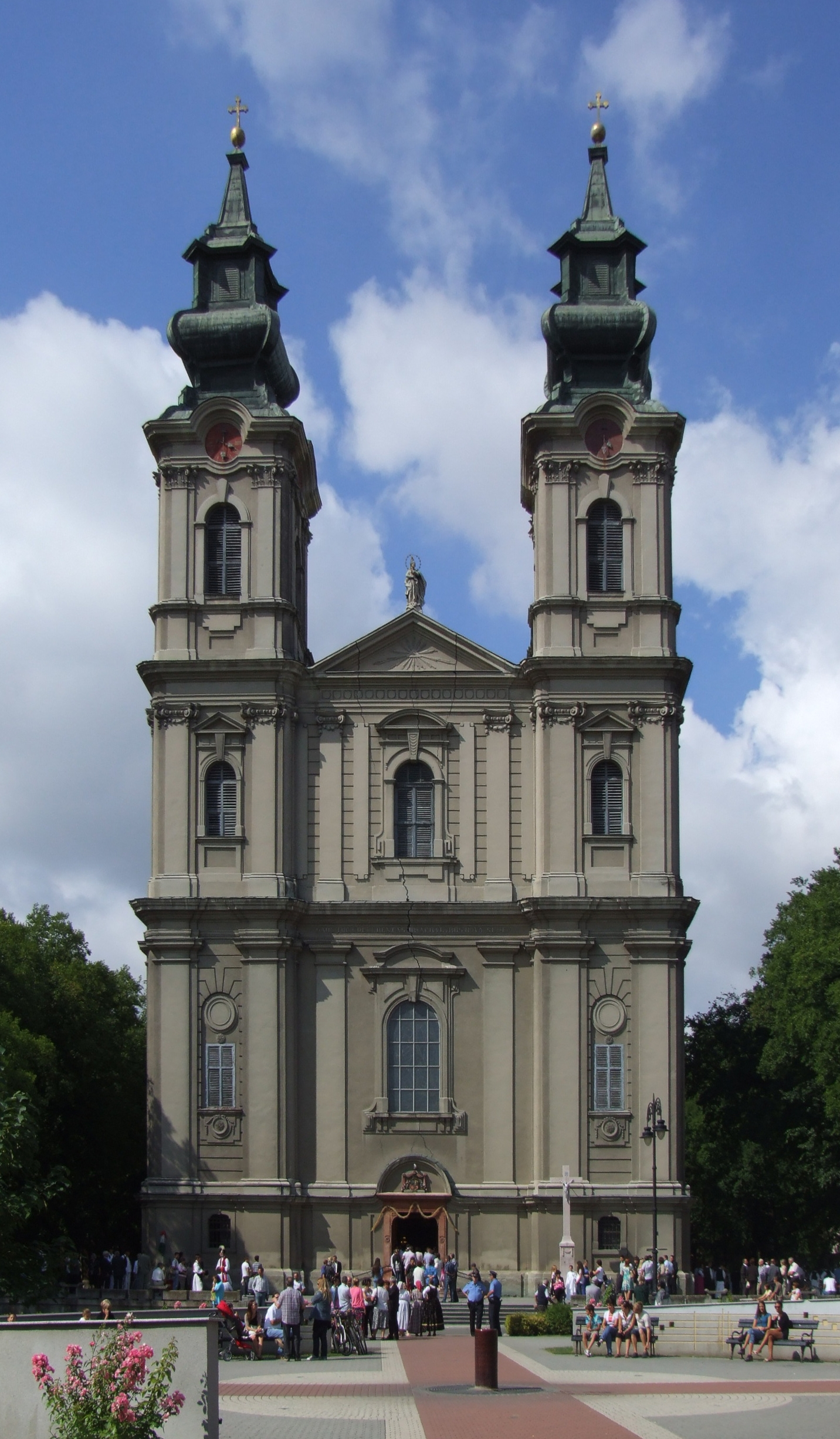 Subotica (Szabadka) - Catholic cathedral of St. Theresia of Avila